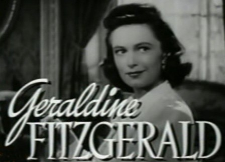 Cropped screenshot of Geraldine Fitzgerald from the trailer for the film The Gay Sisters.